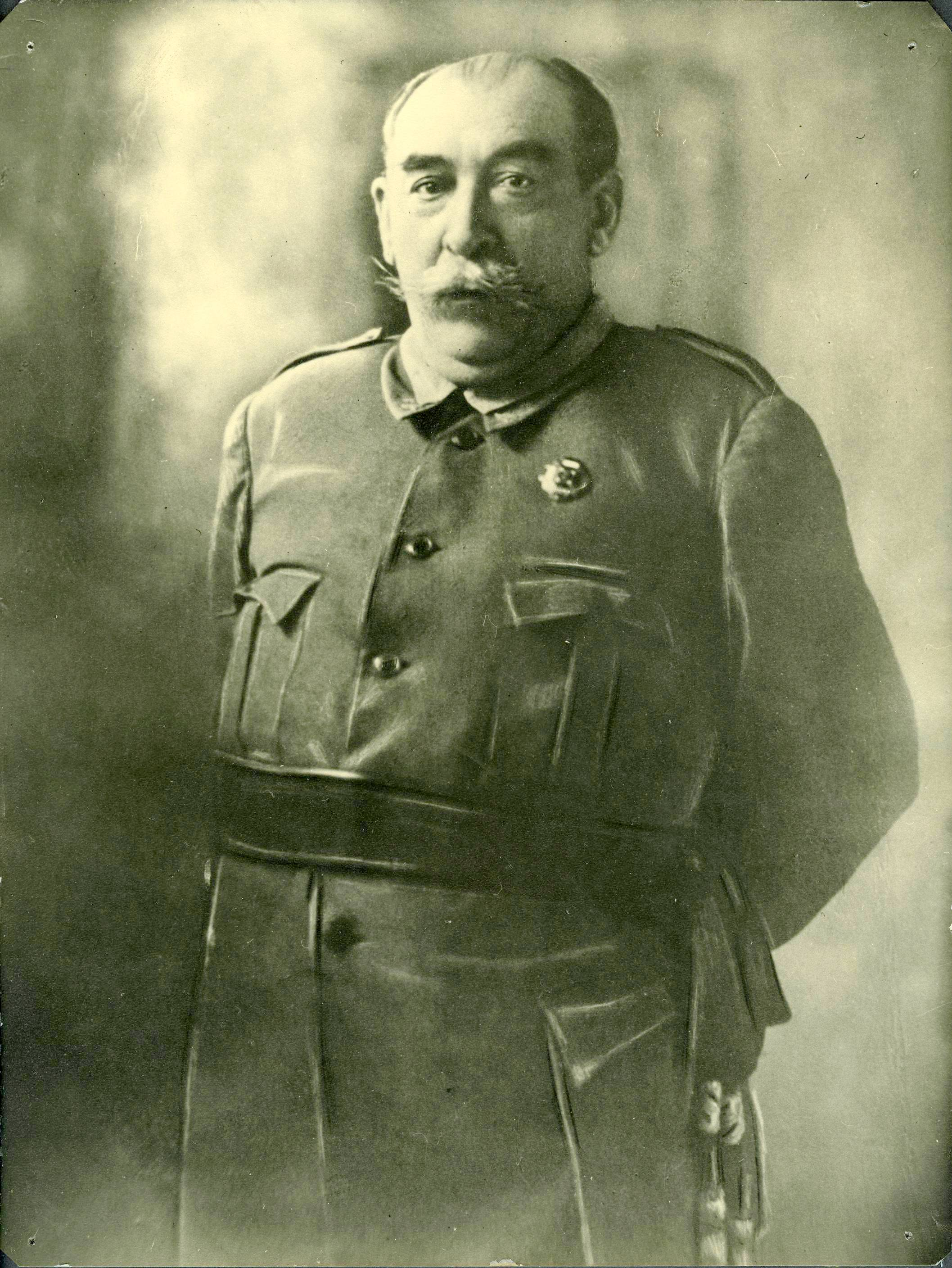 Spanish Army general Andrés Saliquet